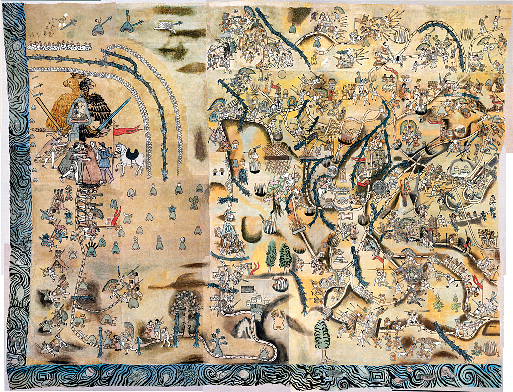 Lienzo de Quauhquechollan, after restoration by forty digital designers at Studio C, in Guatemala City, Guatemala, for the Universidad Francisco Marroquín (according to LFM explanations).